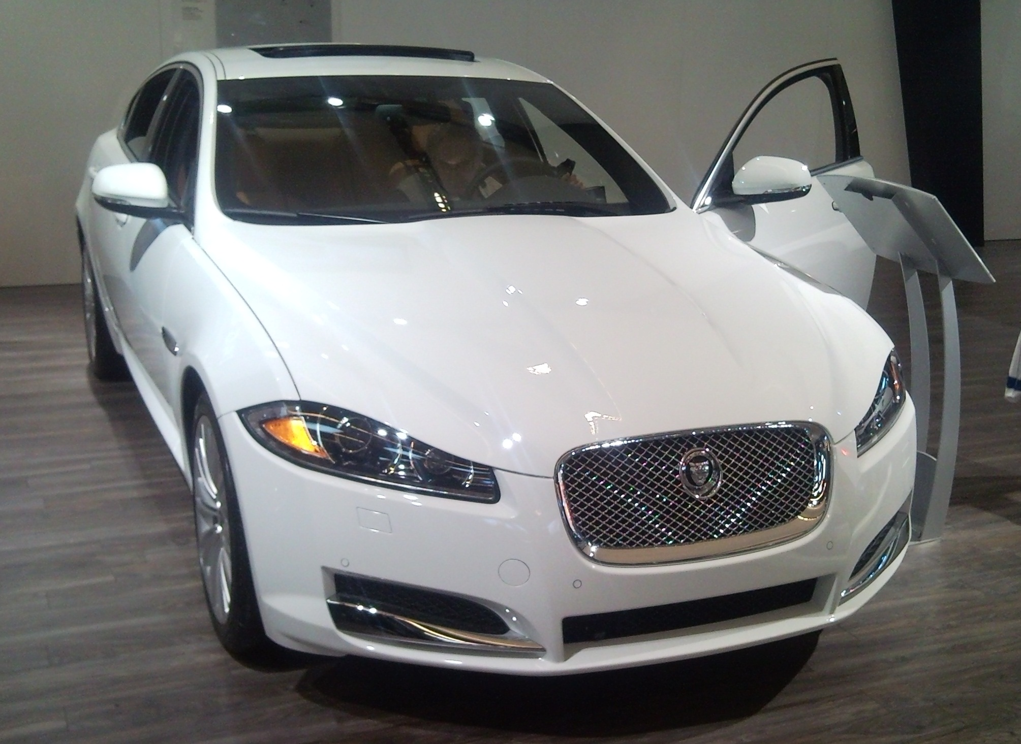 2012 Jaguar XF photographed in Montreal, Quebec, Canada at the 2012 Montreal International Auto Show.